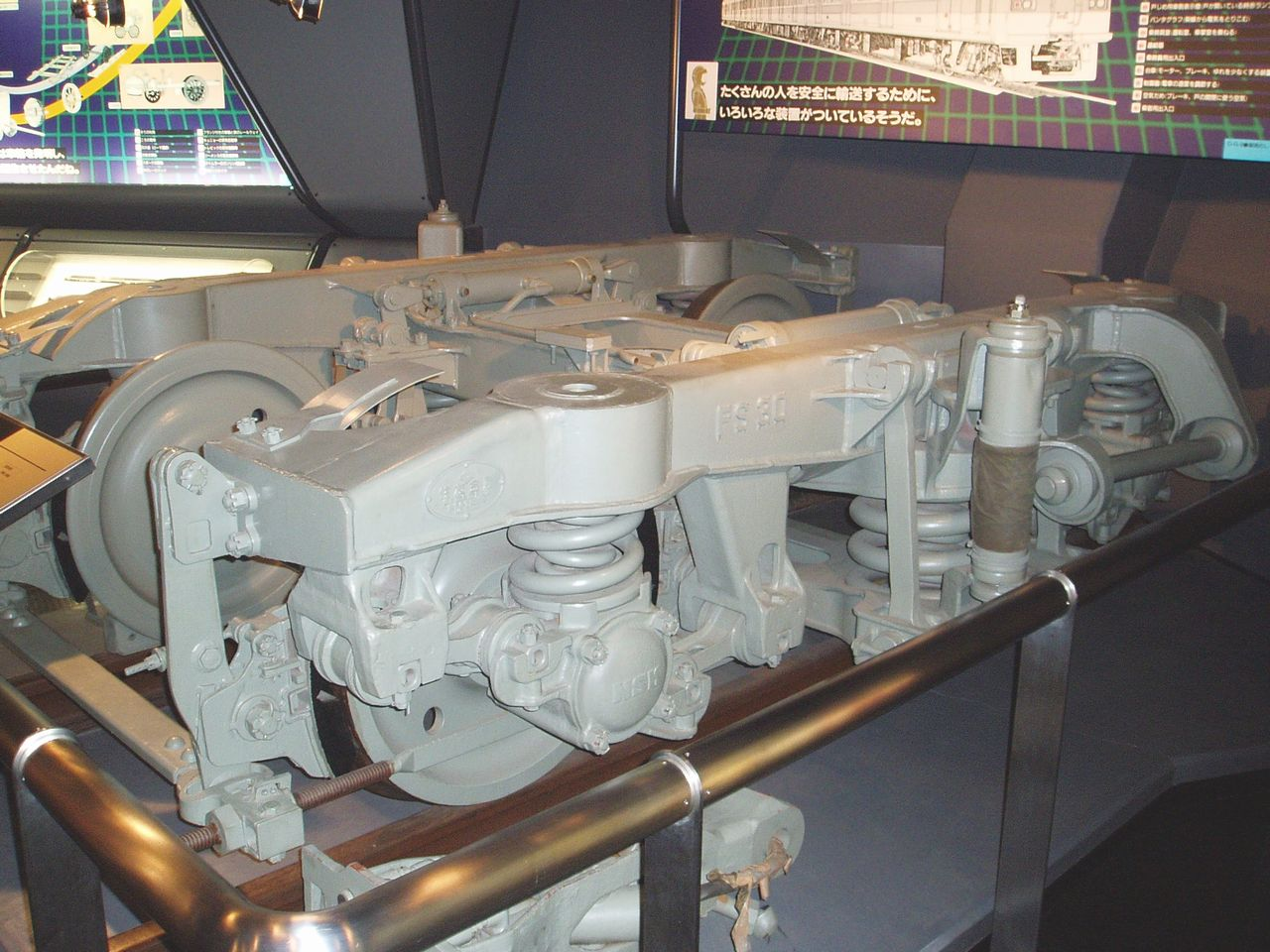 Bogie of Odakyu Electric Railway type 2400. 小田急2400形の台車（付随台車FS30） 2007.06.22 辻堂海浜公園・交通展示館にて Photo by Cassiopeia_sweet.